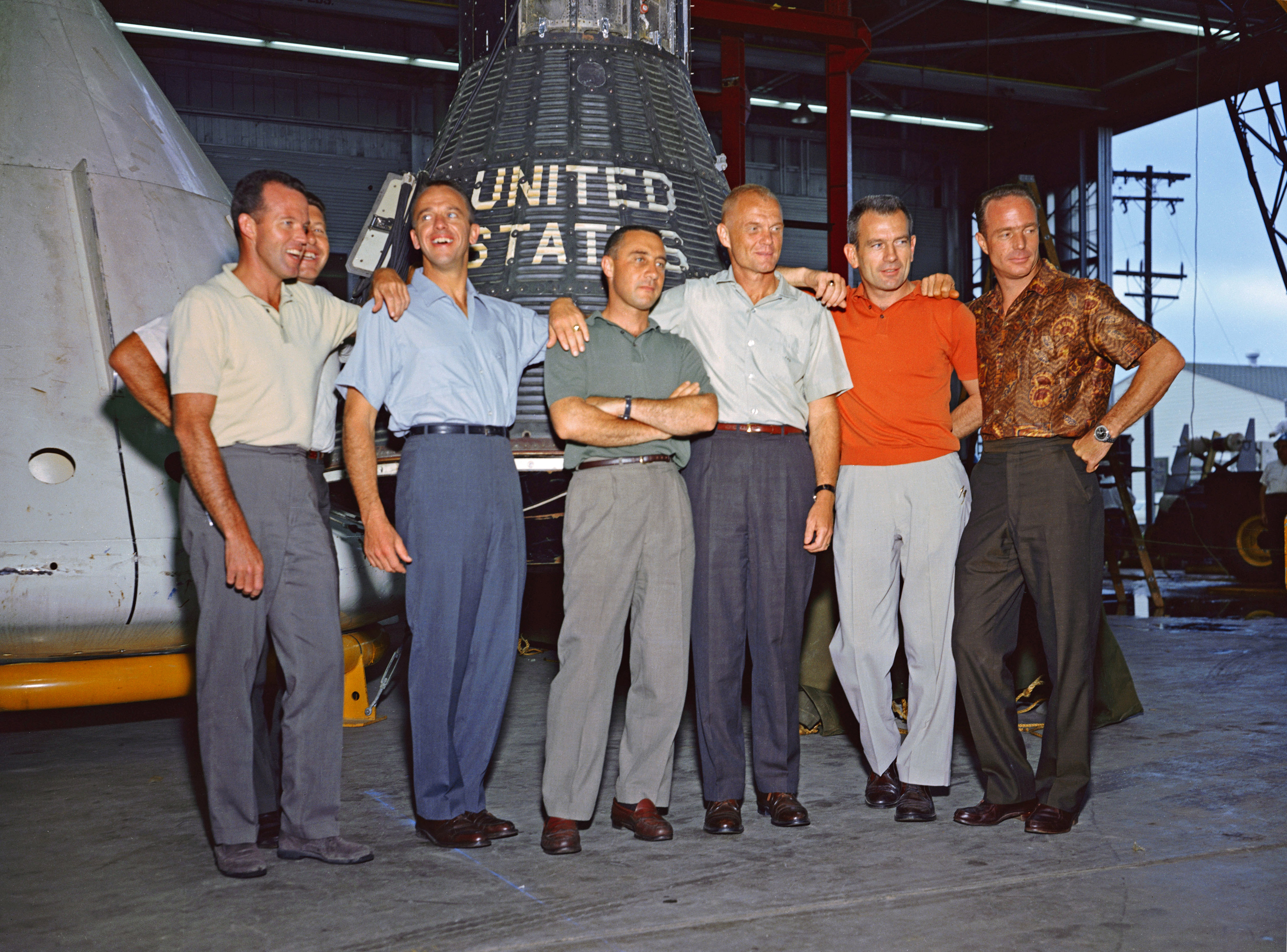 A group photo of the seven original astronauts of Mercury (the Mercury Seven), taken at the Ellington Air Force Base in Houston, Texas. From left to right: Gordon Cooper, Walter Schirra, Alan Shepard, Virgil Grissom, John Glenn, Donald Slayton and Scott Carpenter. NASA photo S63-18853.